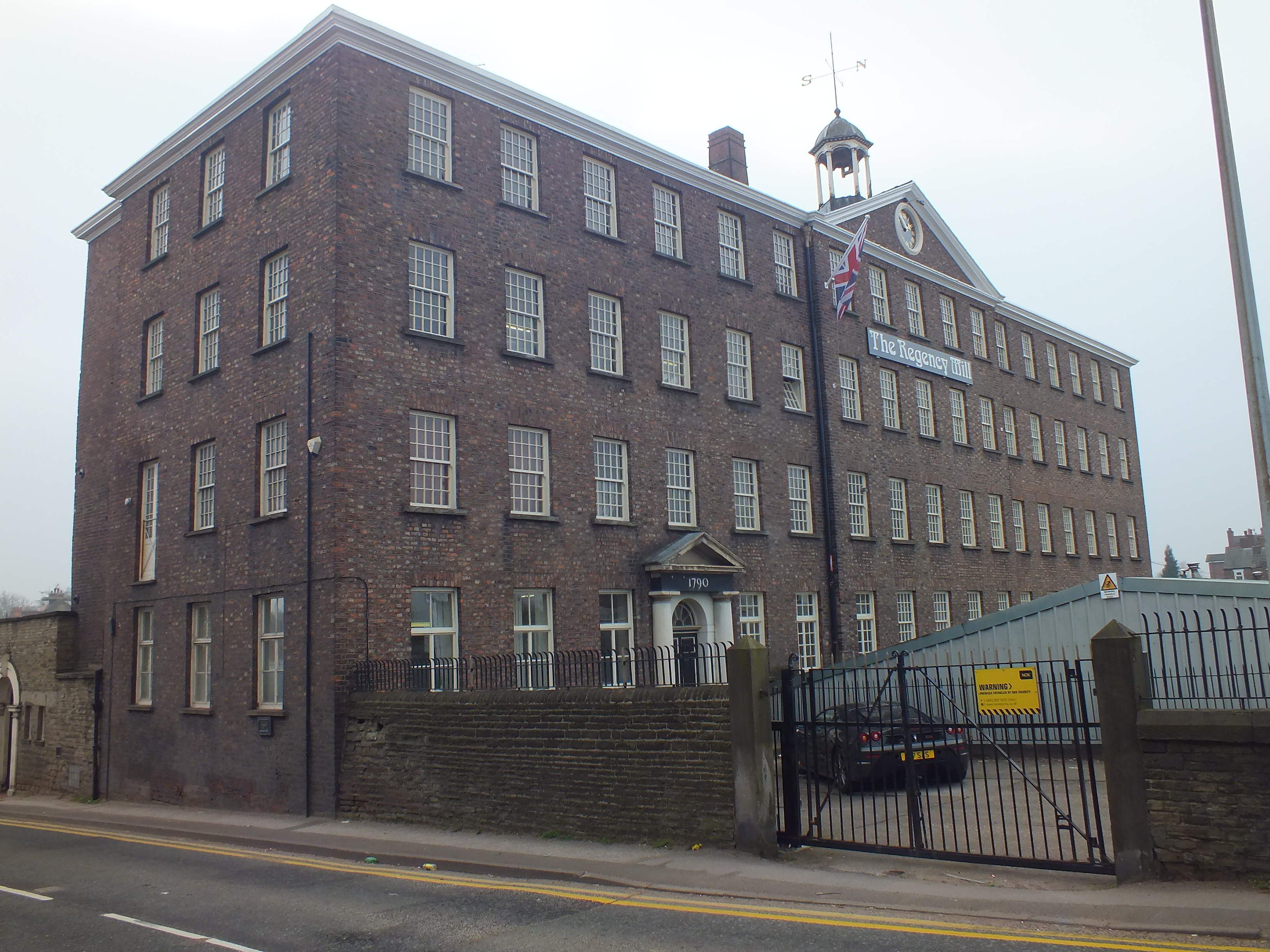 Macclesfield was a town of silk mills Chester Road Mill now known as the Regency Mill